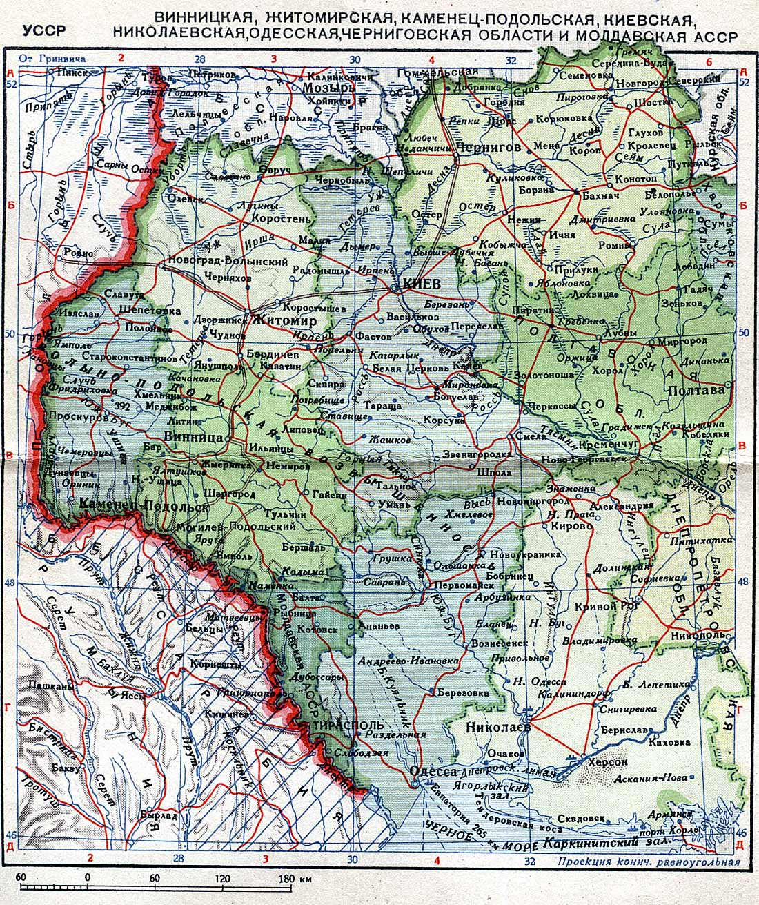 Map of Ukraine (1939)